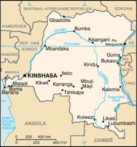 An Afrikaans map of the Democratic Republic of the Congo.